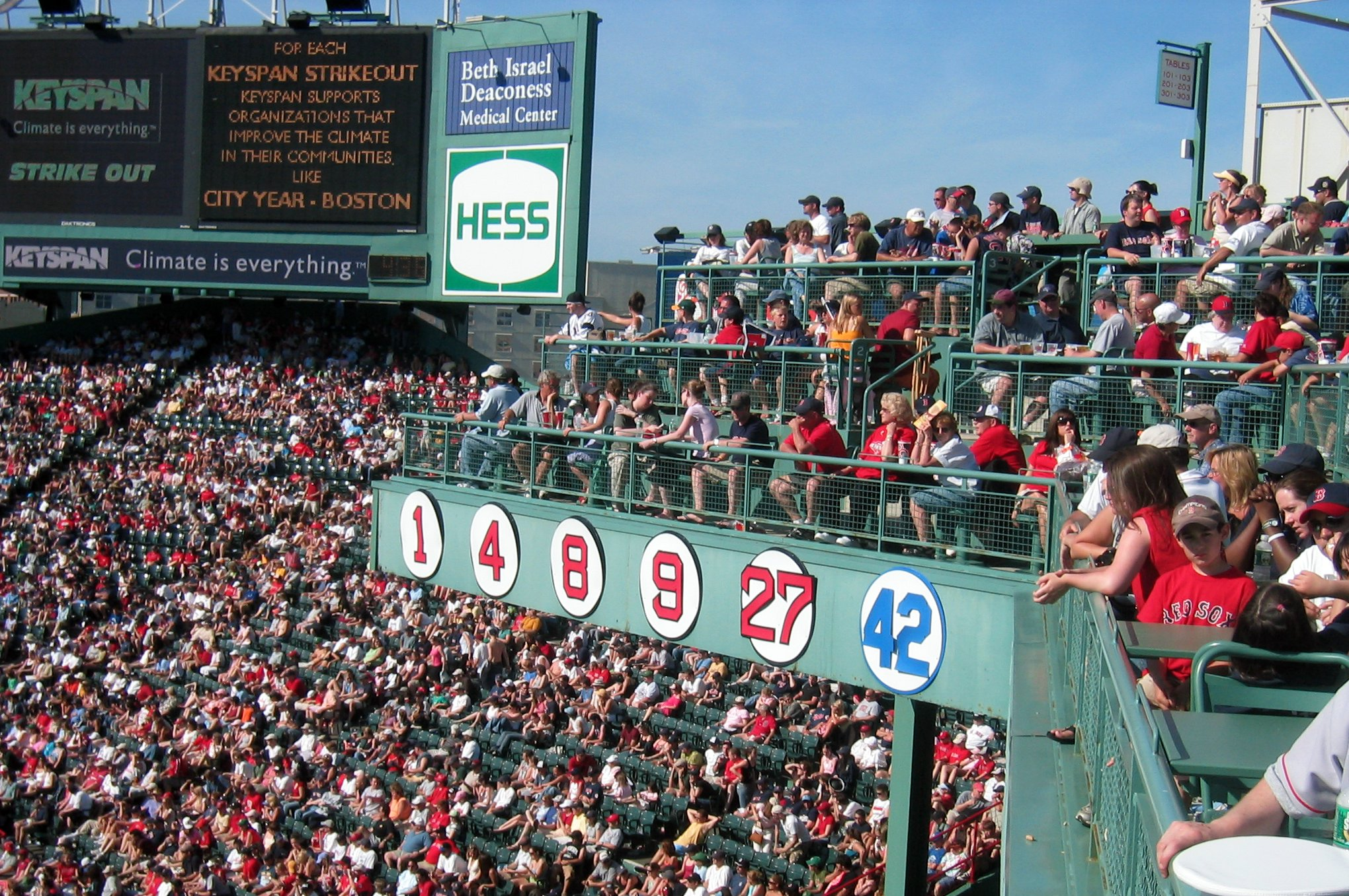 Fenway Park